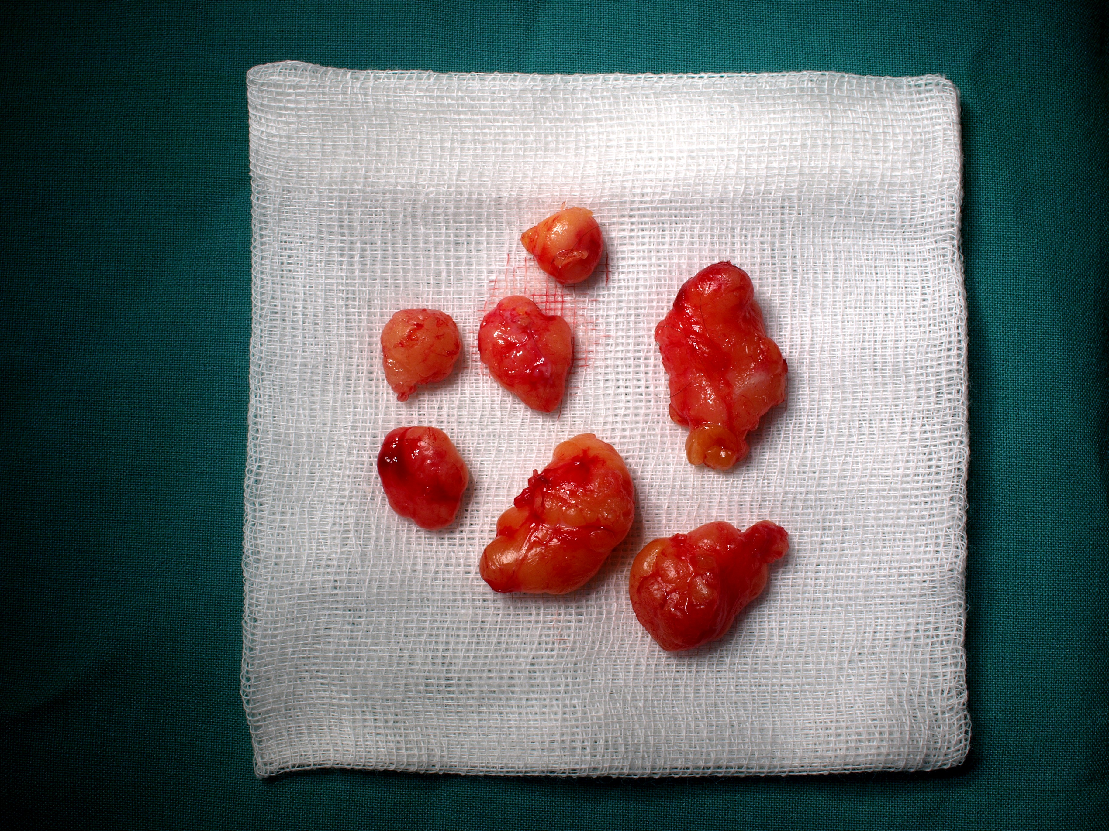 Lipoma of the skin